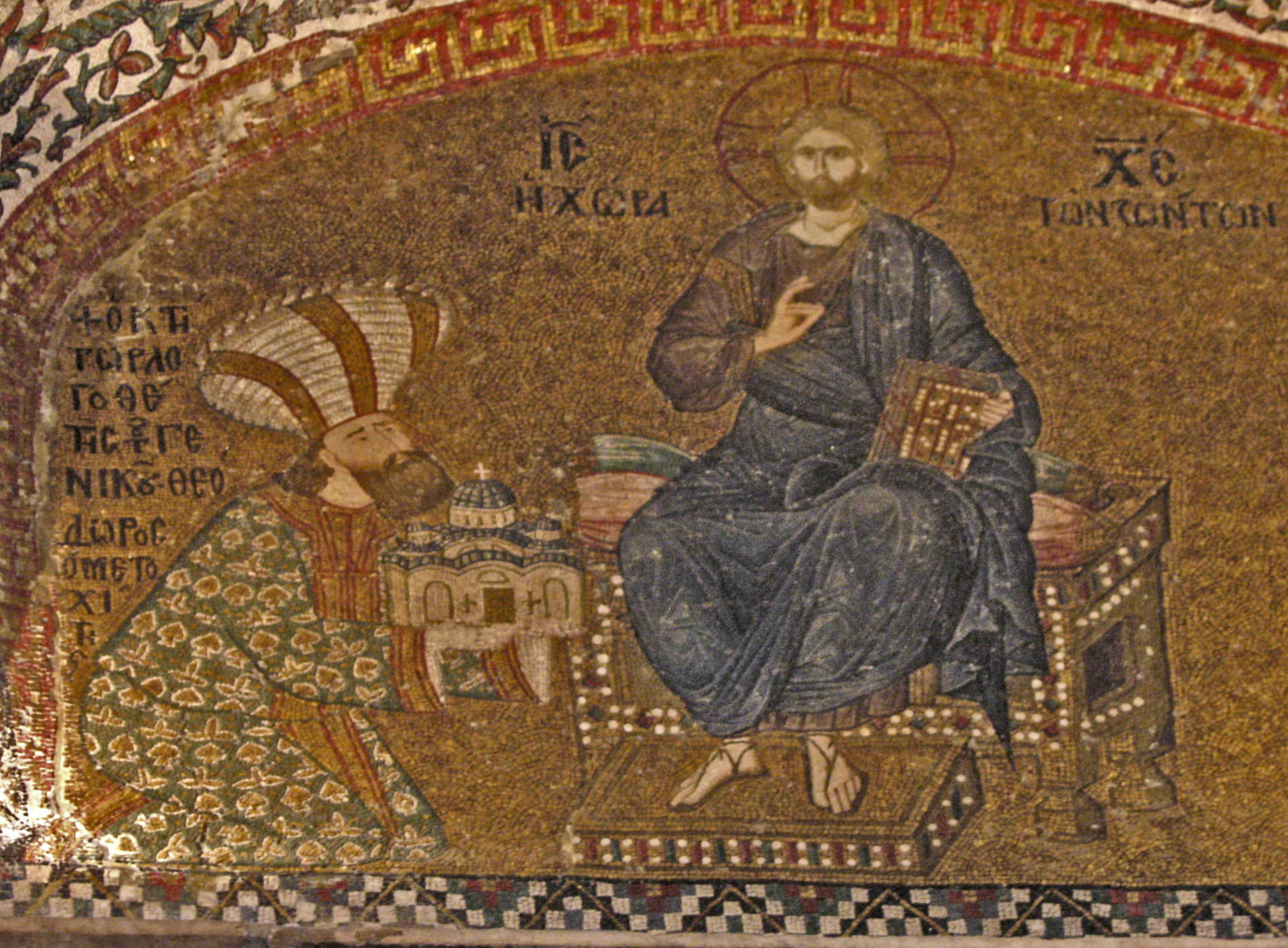 Mosaic in Chora Church. Metochites presents his church to Christ.